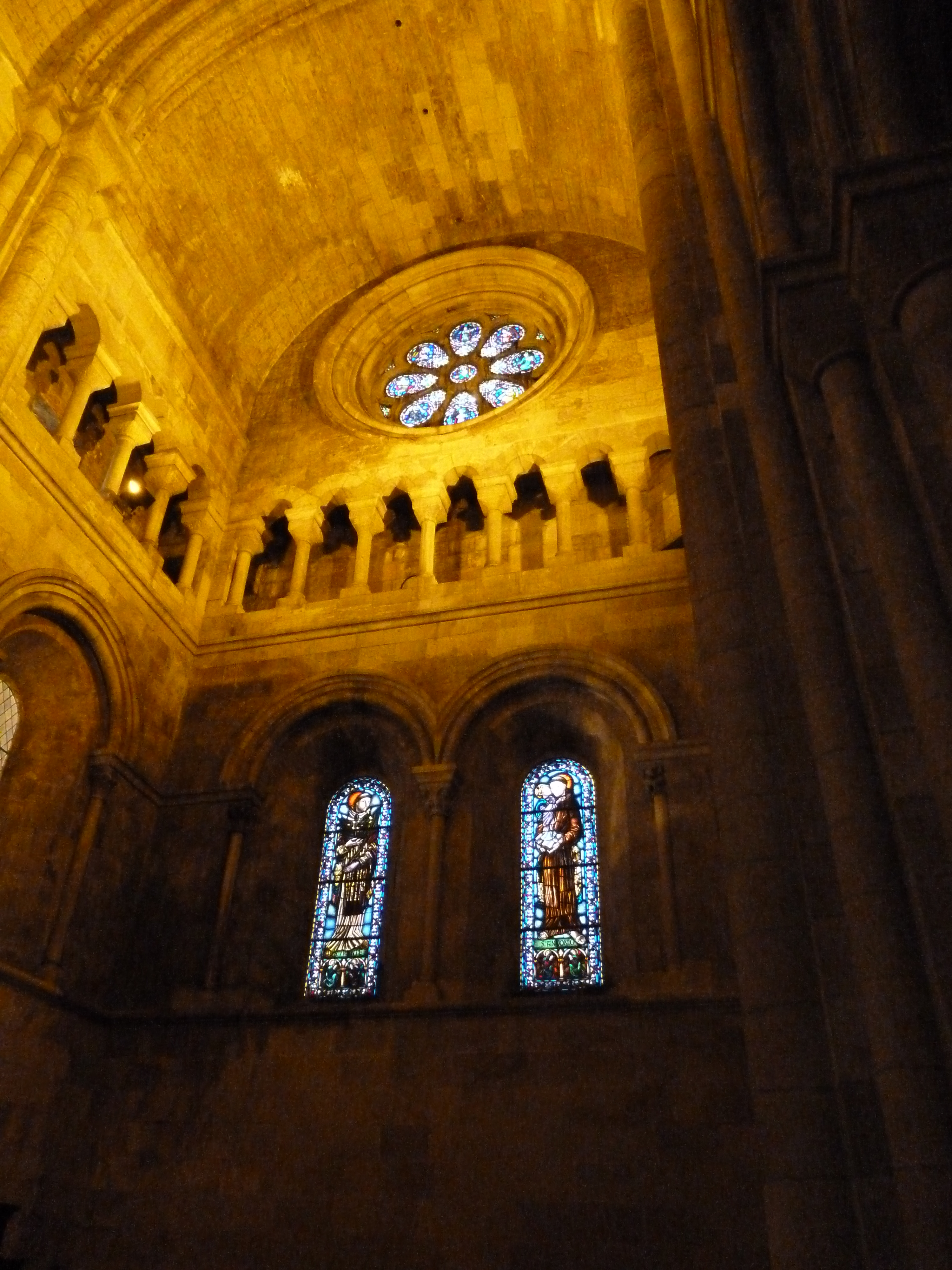 Cathedral of Lisbon (Sé de Lisboa)